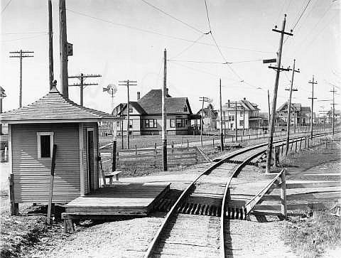 Antioch platform and interurban passenger shelter, Antioch, Clinton County, Indiana.